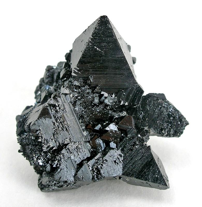 Hausmannite Locality: Wessels Mine (Wessel's Mine), Hotazel, Kalahari manganese fields, Northern Cape Province, South Africa (Locality at ) SHARP, very equant, mirror-lustrous cluster of the highest quality! 3.1 x 2.7 x 2.0 cm